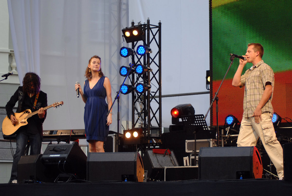 Dalia Grybauskaitė Presidential inauguration, Lithuania, 2009-07-12 Skamp